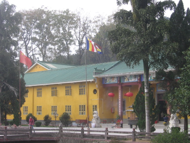 Front, three-quarters view of Yunmen Temple near Shaoguan, Guangdong, China. 公有领域